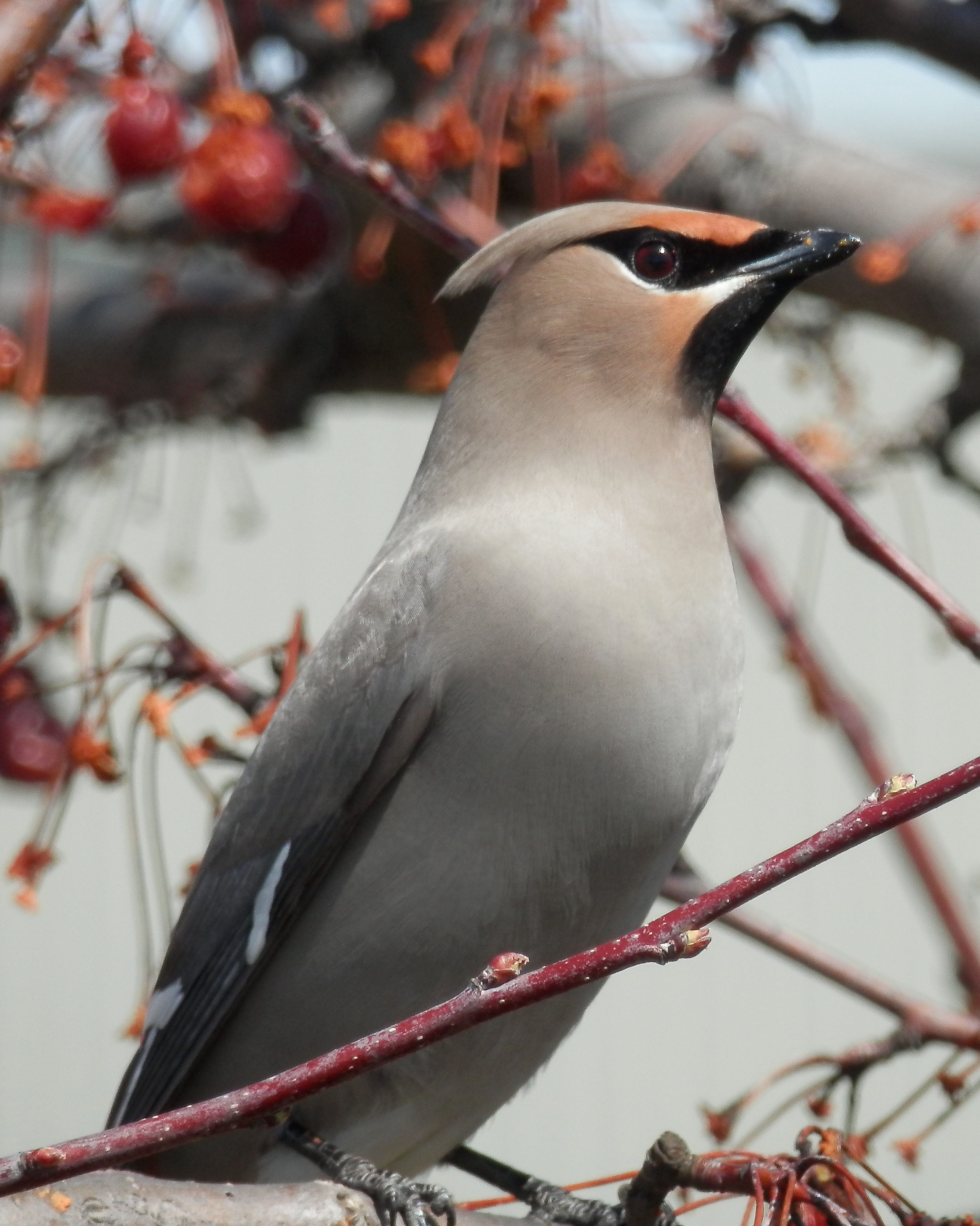 Bohemian Waxwing (Bombycilla garrulus) in Simcoe, Norfolk County, Ontario, Canada.